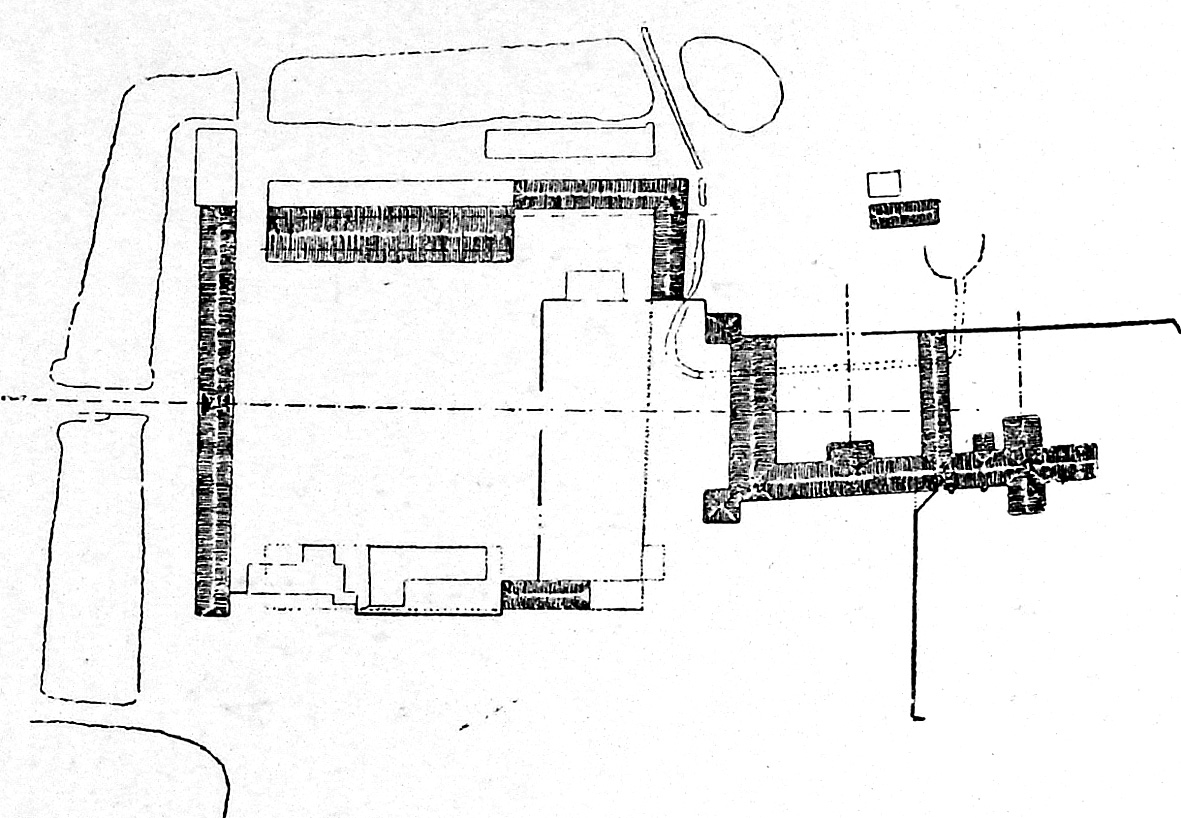 Map of Dronninglund Castle